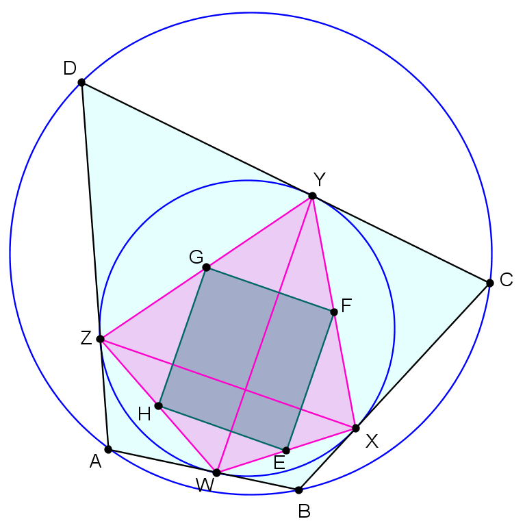 Contact quadrilateral